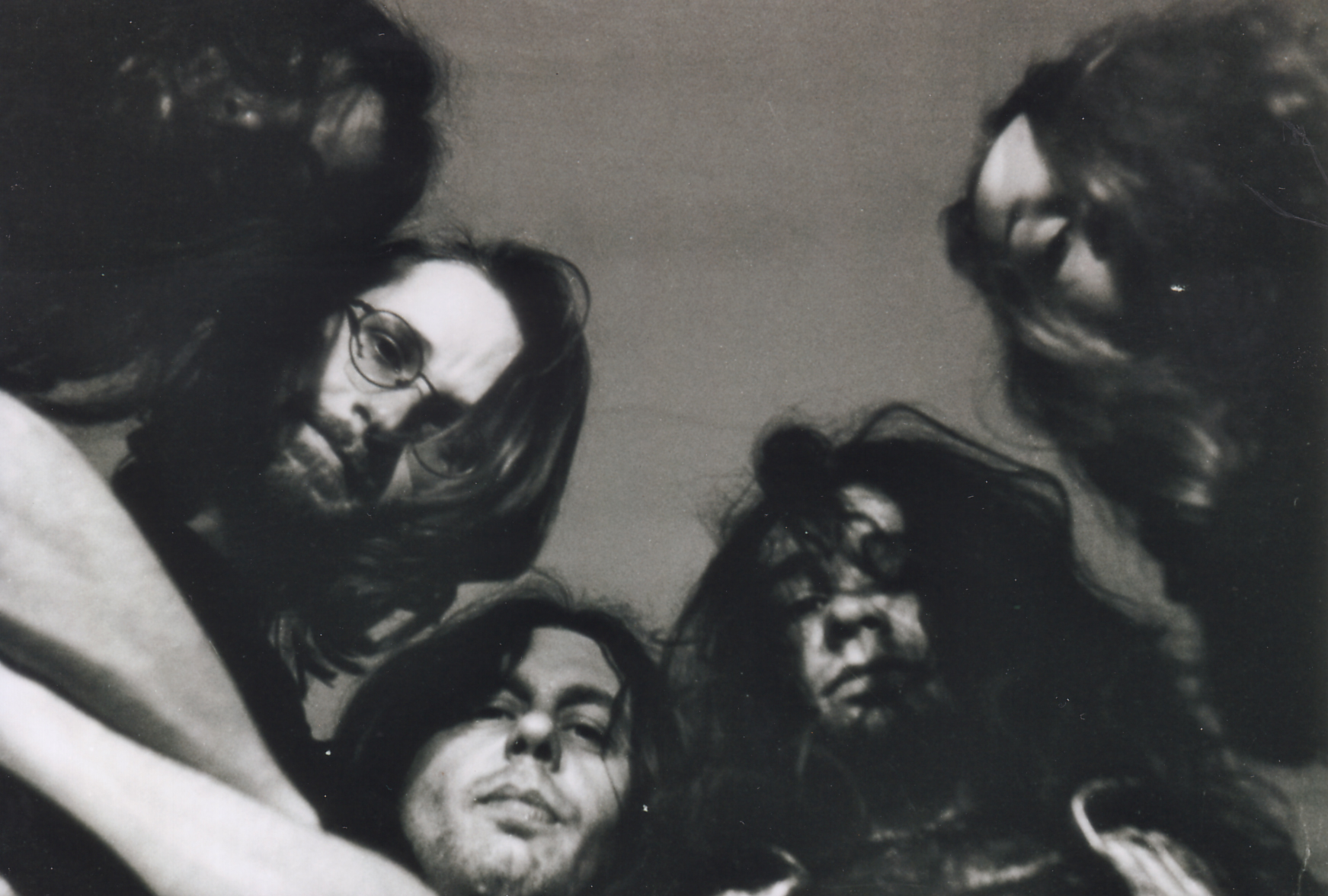 Facelift at their early days. Andreas Suppan, Peter Domainko, gerald Muskatel, Clemens Berger and Andrea Orso (original line up)